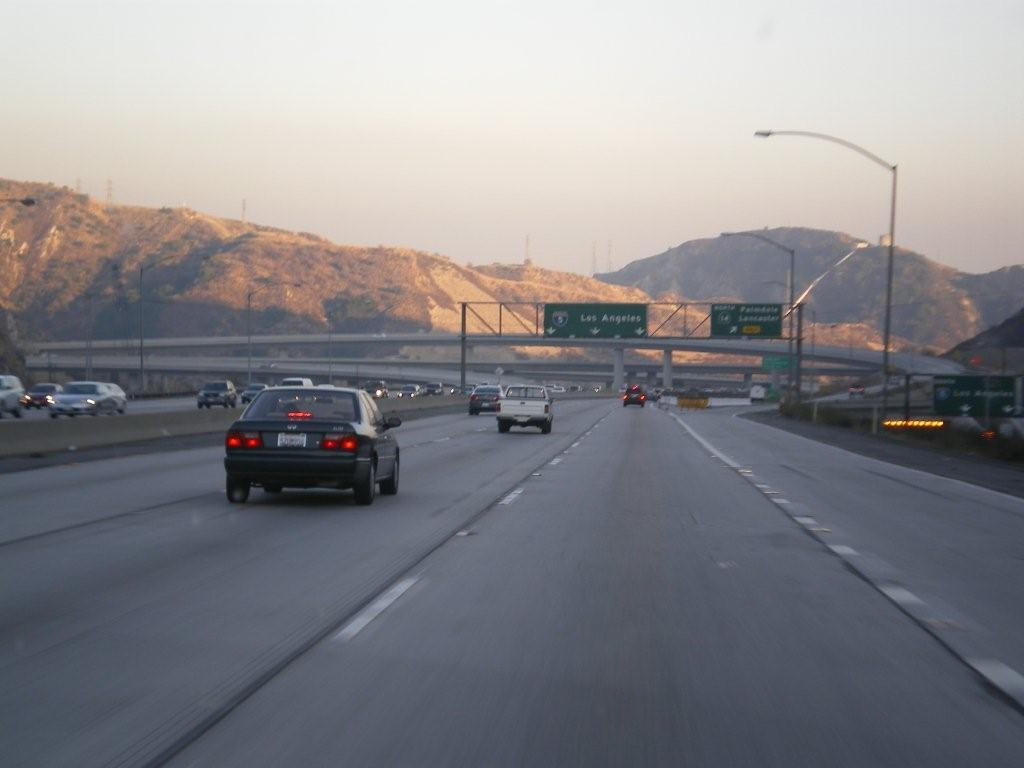 The Newhall Pass interchange (the junction of Interstate 5 and California State Route 14) at the northern approach to the San Fernando Valley. Santa Susana Mountains to right (south) and in; and western San Gabriel Mountains foothills ahead (east).